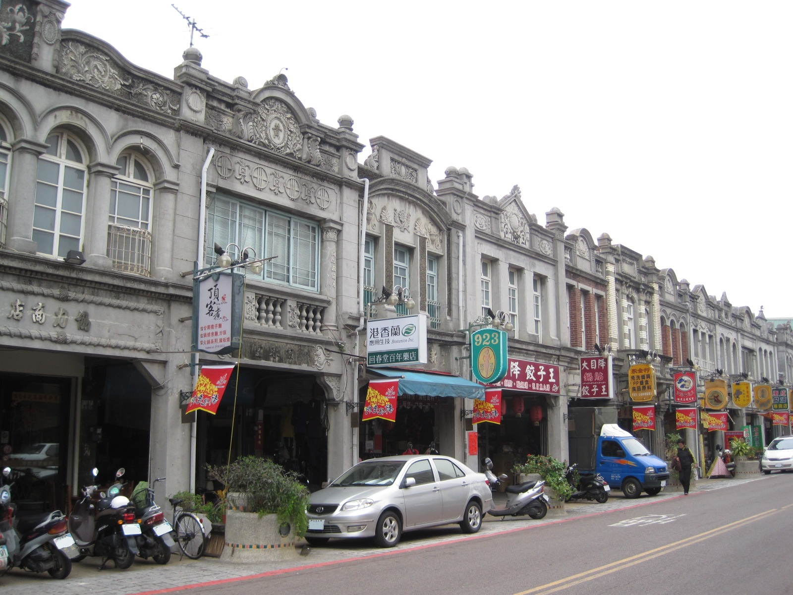 Xinhua Old Street